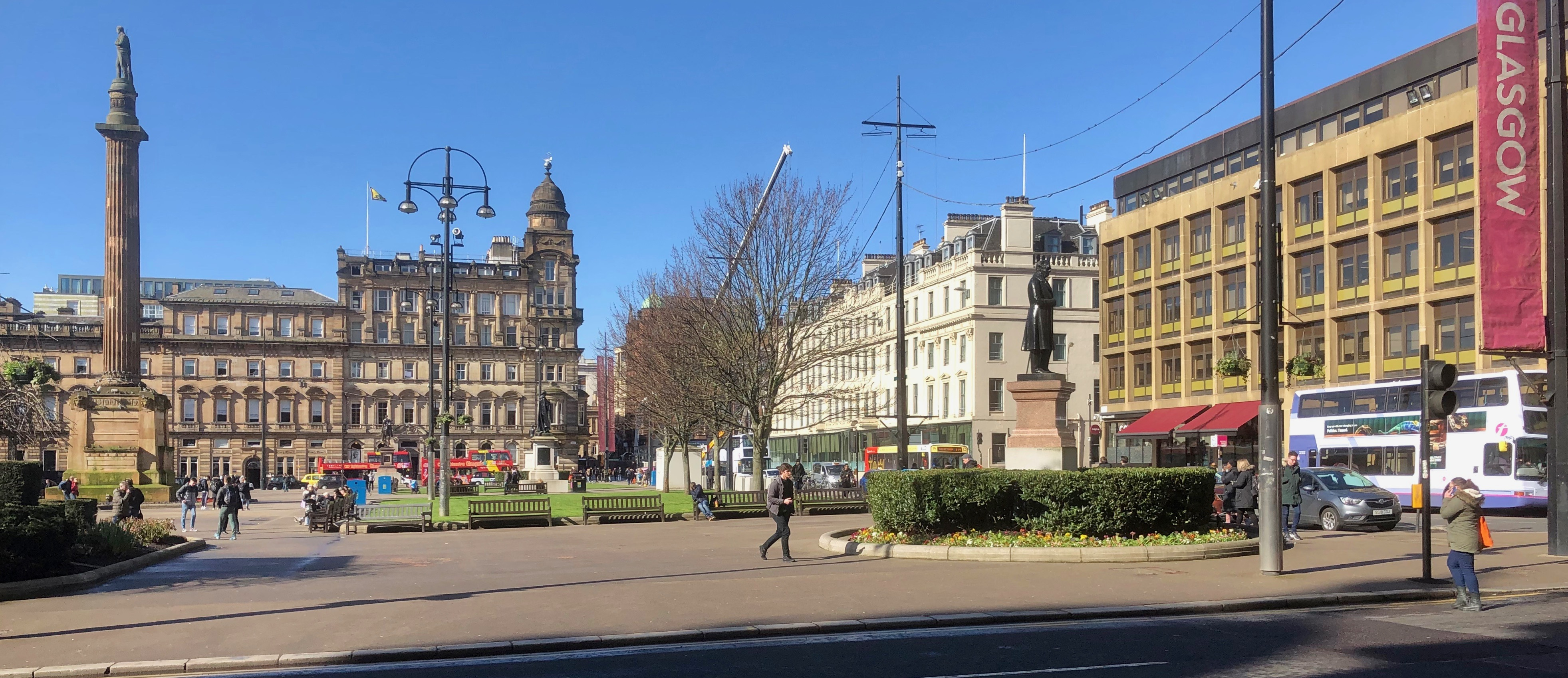 George Square, Glasgow, Scott monument in front of west side of square including the Merchants' House; on the north side entrance to Queen Street Station, Millennium Hotel (formerly the North British Hotel), and George House.